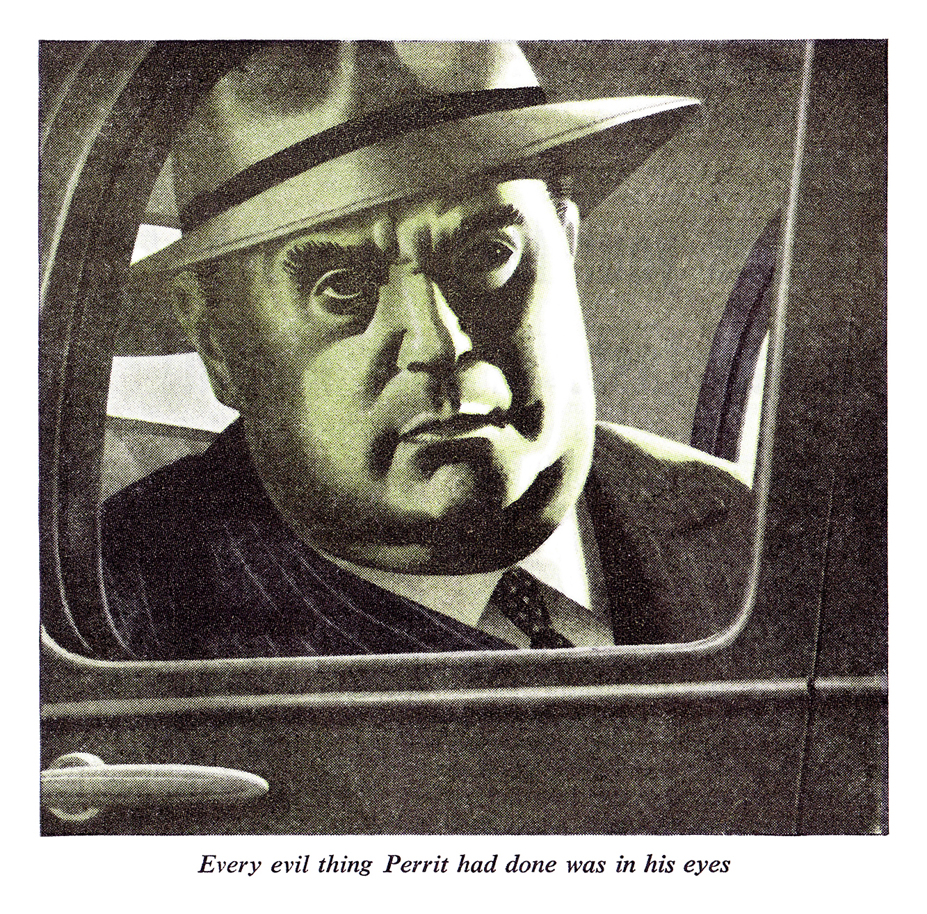 Illustration from The American Magazine printing of "Before I Die", a Nero Wolfe short story by Rex Stout